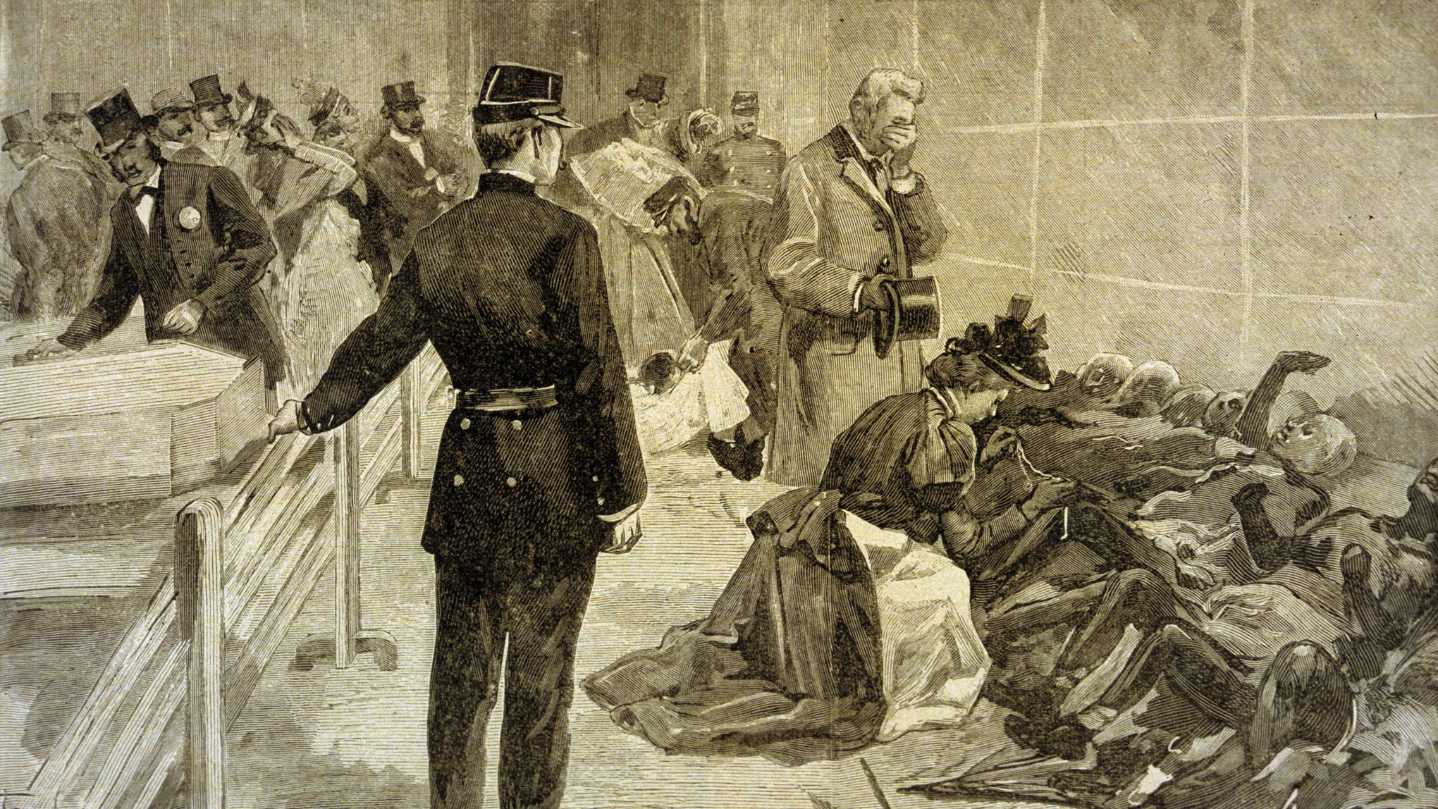 Incendie du Bazar de la Charite (organisation caritative, vente d'objets pour les plus demunis, 160 morts) le 4 mai 1897 a Paris : apres la catastrophe, les familles des victimes se recueillent sur les cadavres, illustration --- Fire of the Bazar de la Charite in Paris on may 4, 1897 : after catastrophe, families engaging private prayer for the victims, illustration